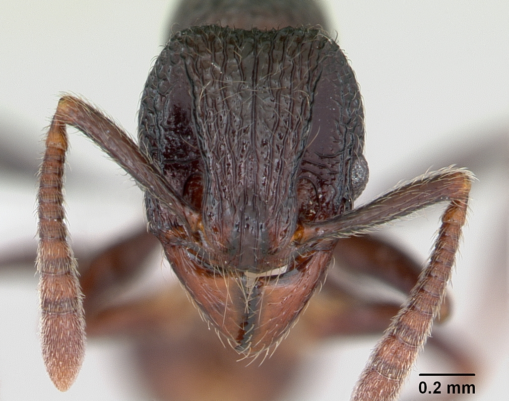 Head view of ant Cyphoidris exalta specimen casent0405993.